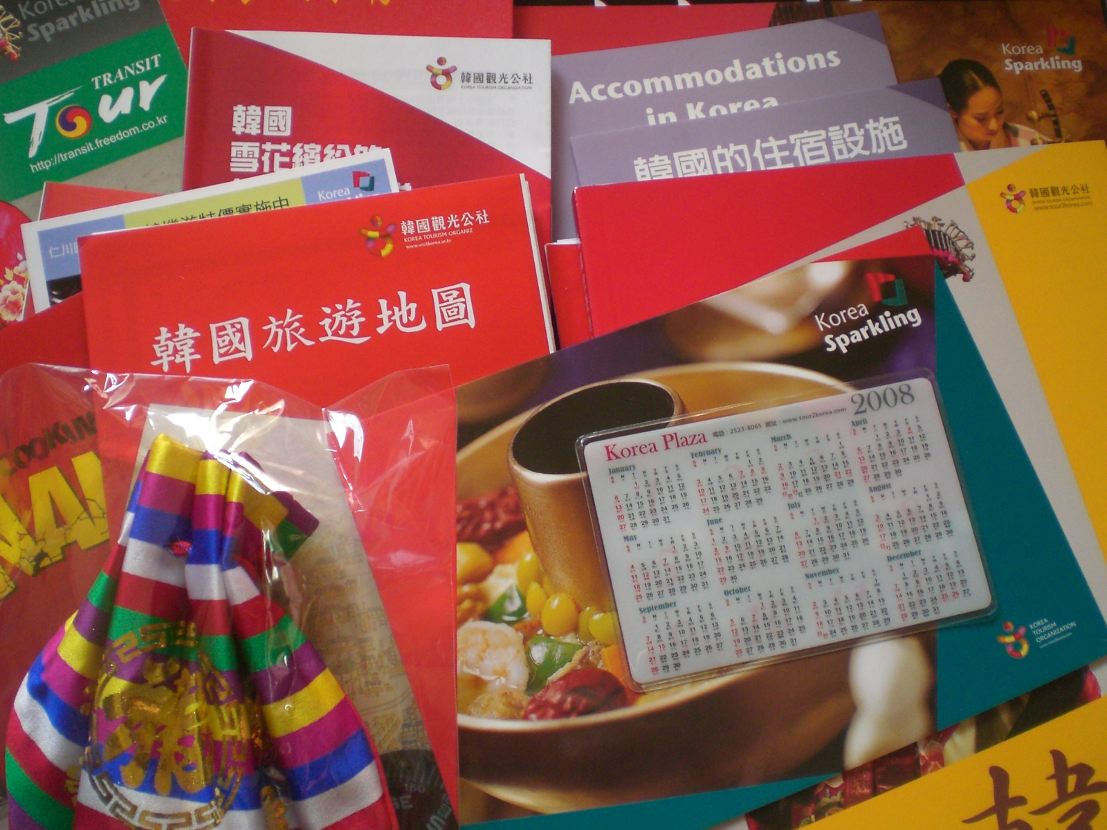 韓國觀光公社，Korea Tourism Organization